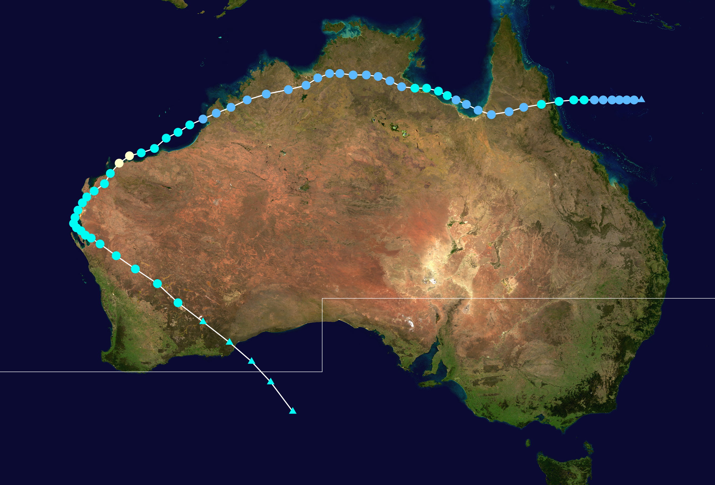 Track map of Tropical Cyclone Steve of the 1999-00 Australian region cyclone season. The points show the location of the storm at 6-hour intervals. The colour represents the storm's maximum sustained wind speeds as classified in the Saffir–Simpson scale (see below), and the shape of the data points represent the nature of the storm, according to the legend below. Saffir–Simpson scale Tropical depression≤38 mph≤62 km/h Category 3111–129 mph178–208 km/h Tropical storm39–73 mph63–118 km/h Category 4130–156 mph209–251 km/h Category 174–95 mph119–153 km/h Category 5≥157 mph≥252 km/h Category 296–110 mph154–177 km/h Unknown Storm type Tropical cyclone Subtropical cyclone Extratropical cyclone / Remnant low / Tropical disturbance